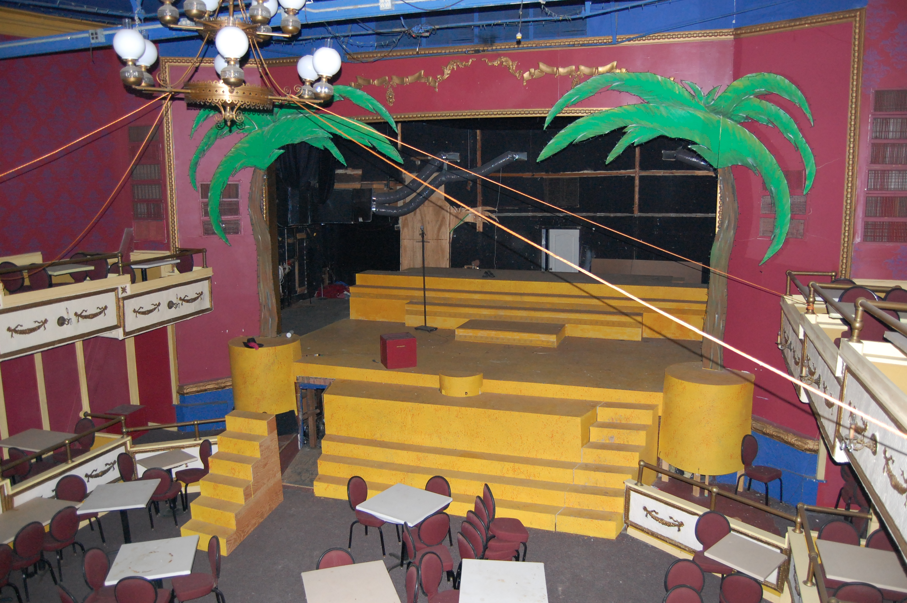 Looking off of the balcony towards the stage of the Goldenrod. The stage is still set up for Joseph and the amazing technicolor dream coat.